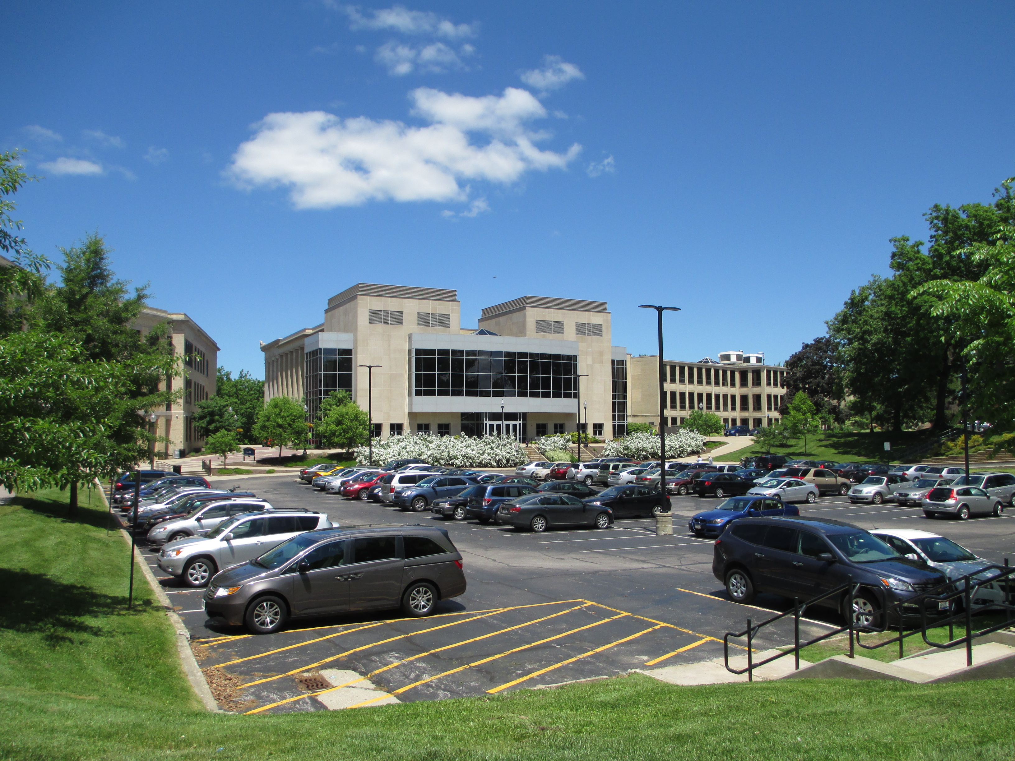 Rear of Cartwright Hall and former site of Wills Gymnasium on the campus of Kent State University in Kent, Ohio, United States. Wills Gym stood on the site of the parking lot from 1925-1979, with part of the building remaining until 2000.